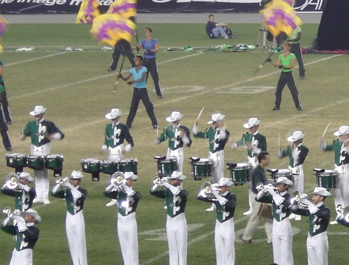 Taken August 13, 2005 at Gillette Stadium in Foxboro at the Drum Corps International world championship finals competition during the Madison Scouts Drum and Bugle Corps' performance, The Carmen Project.